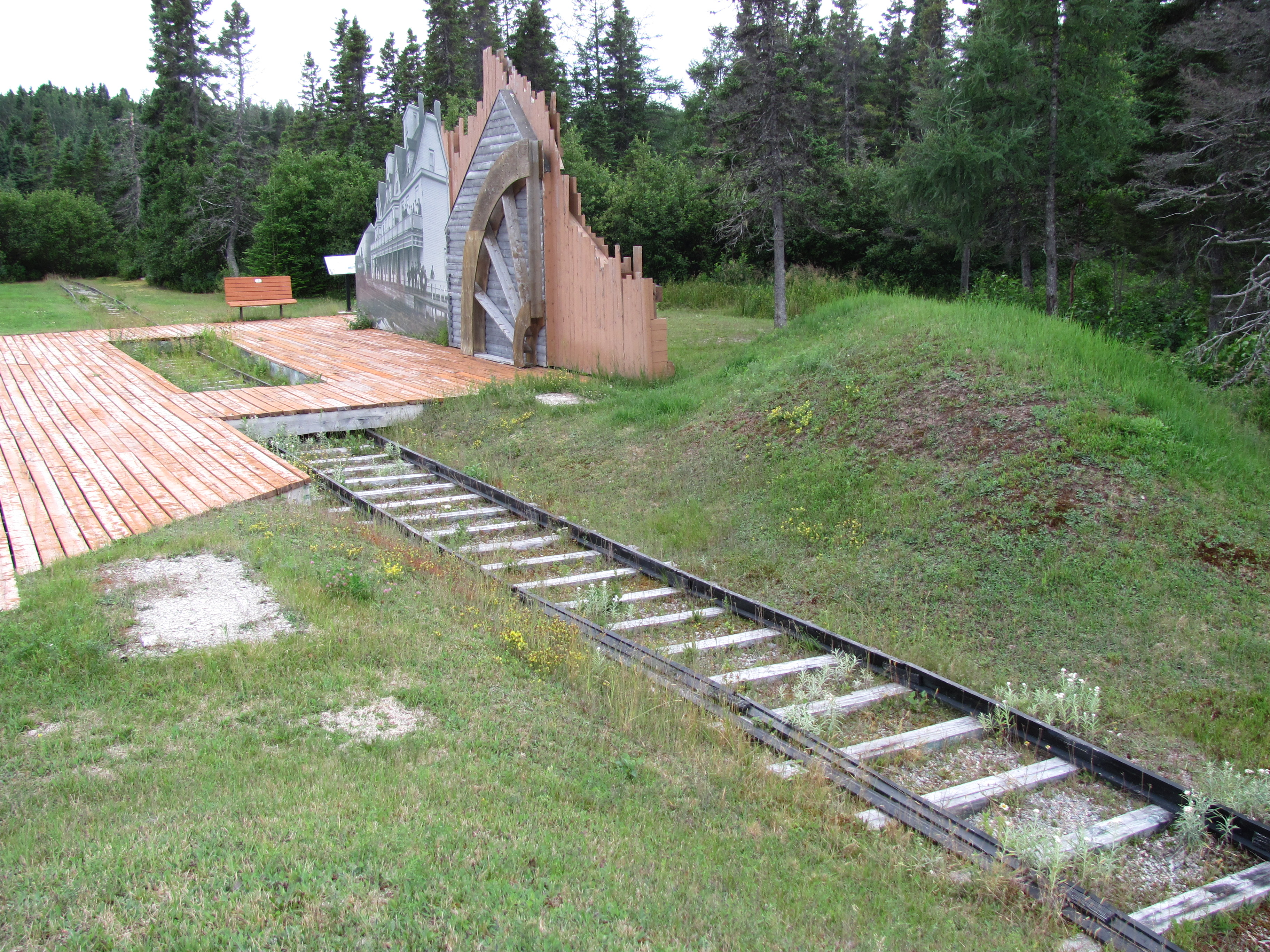 Loggers' Memorial Park, Gambo, Newfoundland and Labrador